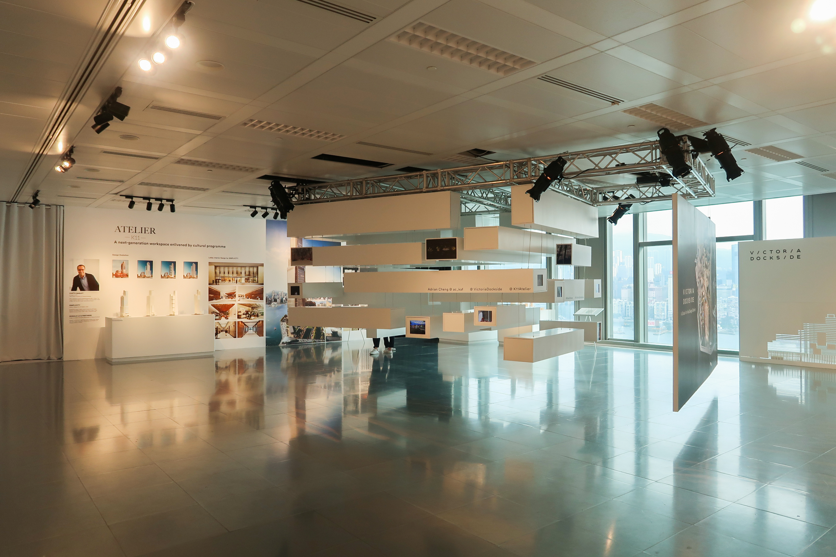 K11 ATELIER 21/F Victoria Dockside exhibition